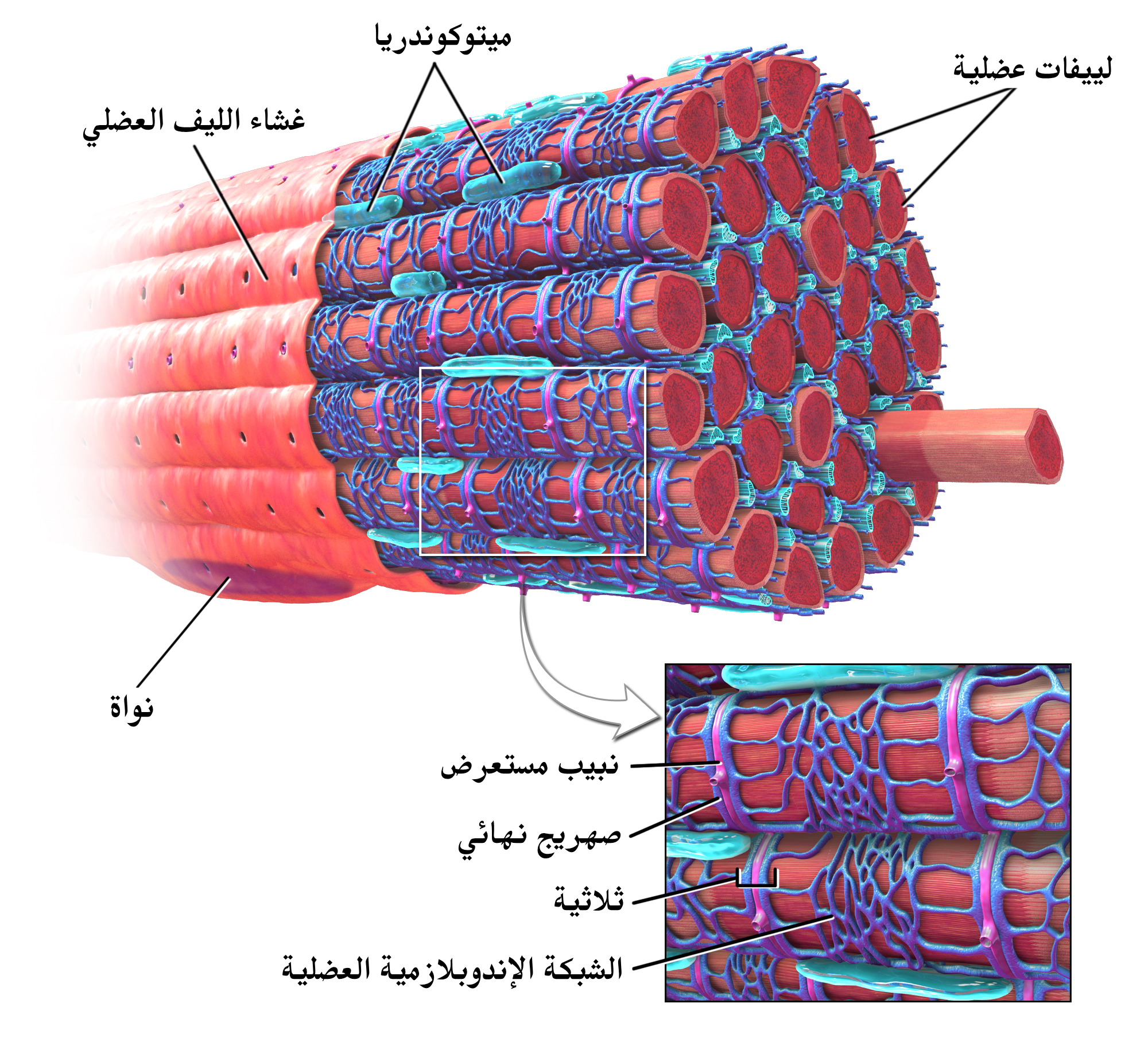 Skeletal Muscle Fiber